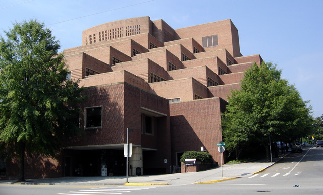 I took this photo and allow its free use.